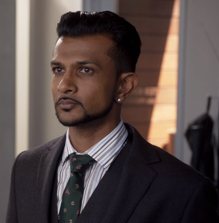 Actor Utkarsh Ambudkar in 'Tall Drink of Water' Ep. 3 Official Clip | White Famous | Season 1 Peter (Jack Davenport) meets with Floyd and Malcolm (Utkarsh Ambudkar) to discuss Floyd's career at his agency. Starring Jay Pharoah.